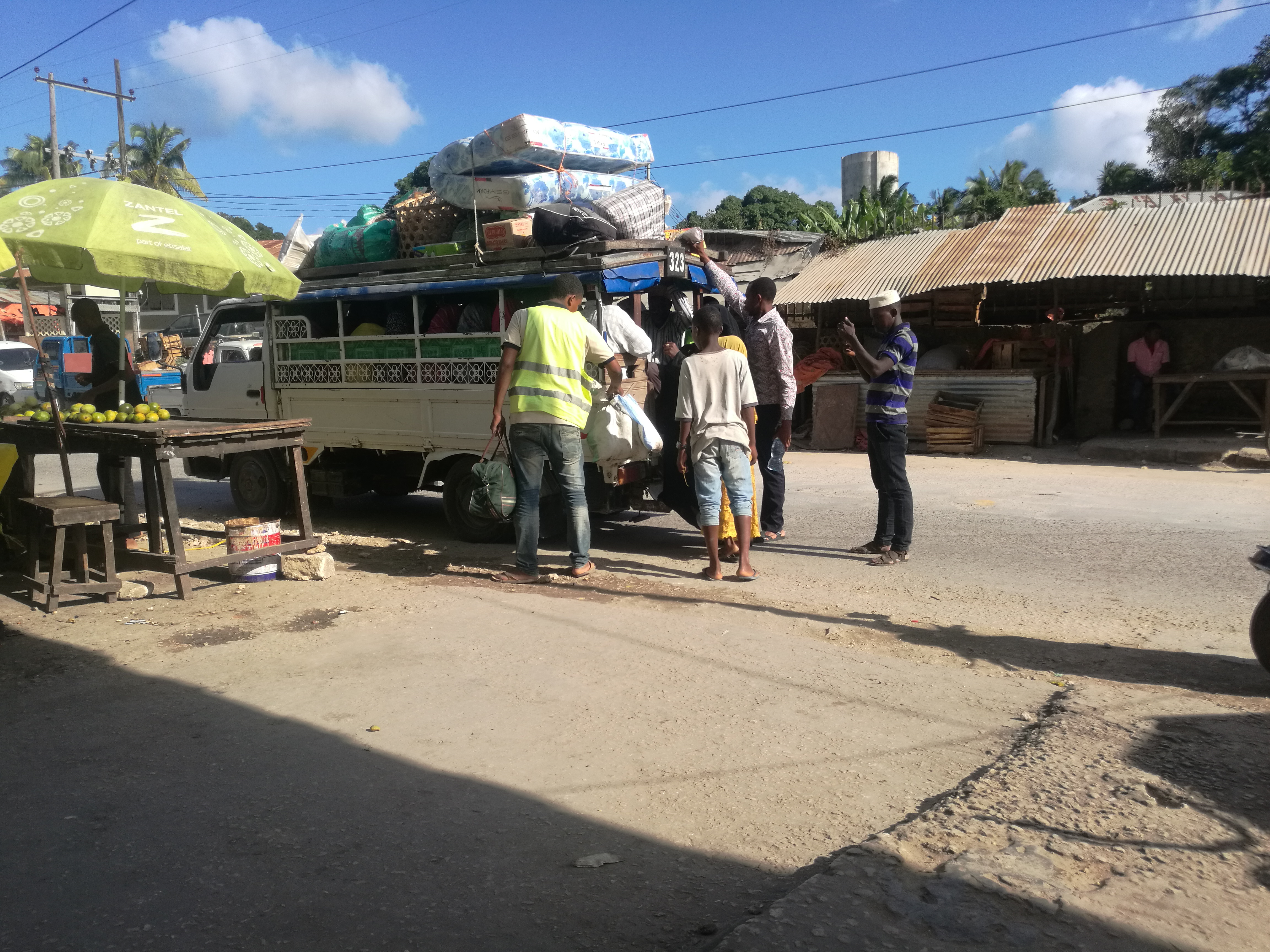 This is the common means the public move from a place to place in some parts of Tanzania, specifically Pemba Island. It is a cheap means of transport, that can be afforded by the majority. This is an image with the theme "Africa on the Move or Transport" from: Tanzania